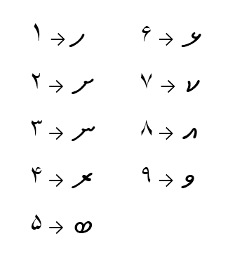 Thaana letters adapted from Persian numerals.